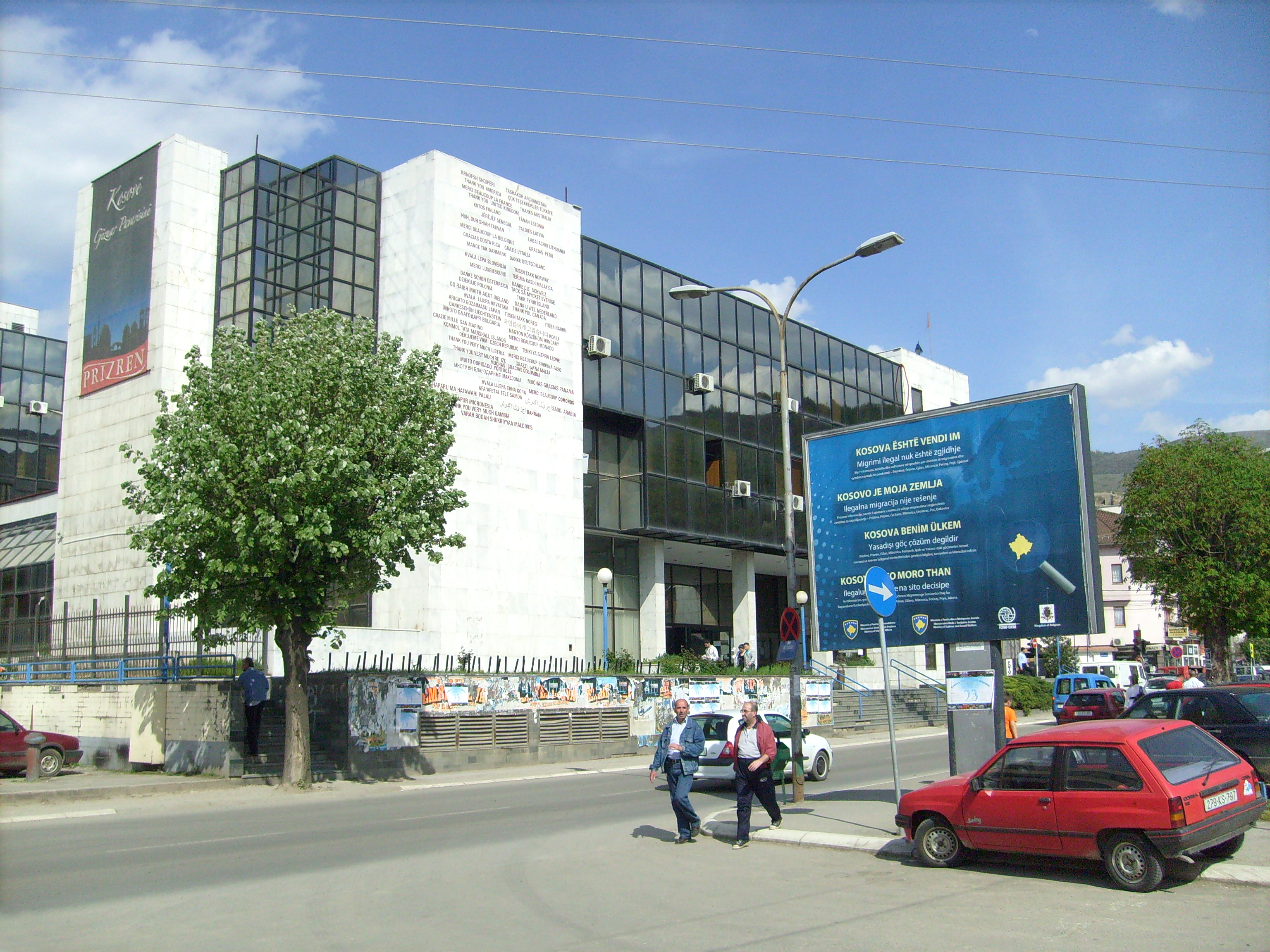 Building of Prizren Municipality (Prizren / Kosovo)